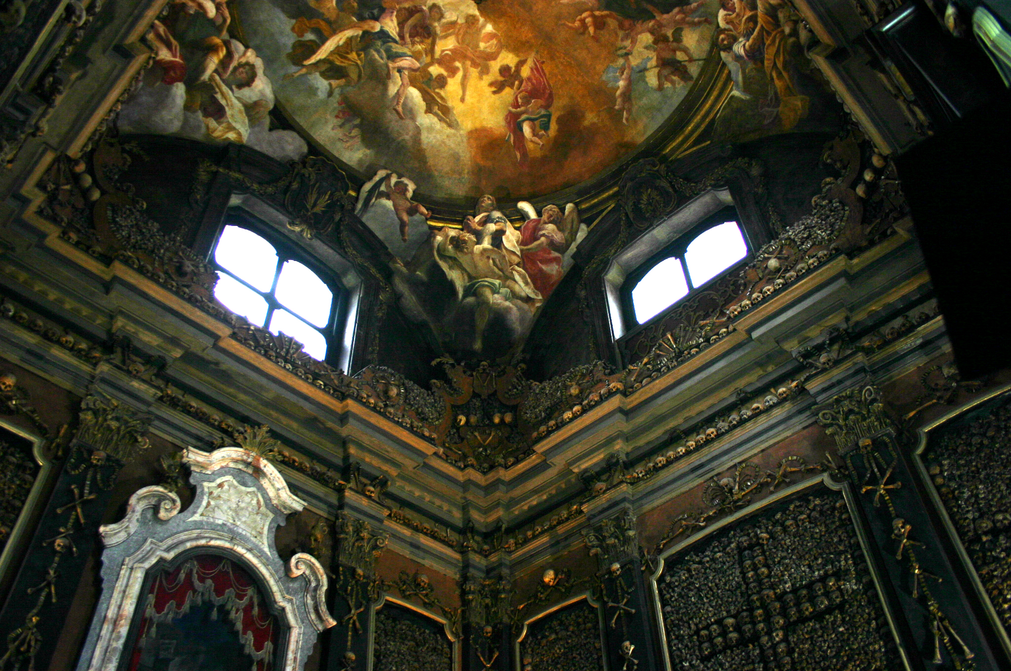 Sebastiano Ricci, detail from the fresco for the chapel/ossuary of San Bernardino alle Ossa at Milan. Picture by Giovanni Dall'Orto, February 17st 2007.